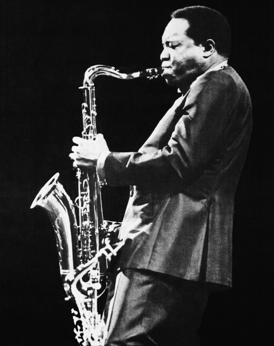 Trade ad for King Curtis's single "Whole Lotta Love".To better adapt it to his respective Wikipedia article, the ad was cropped and cleaned in a graphics editing program. The original can be viewed at the source below.